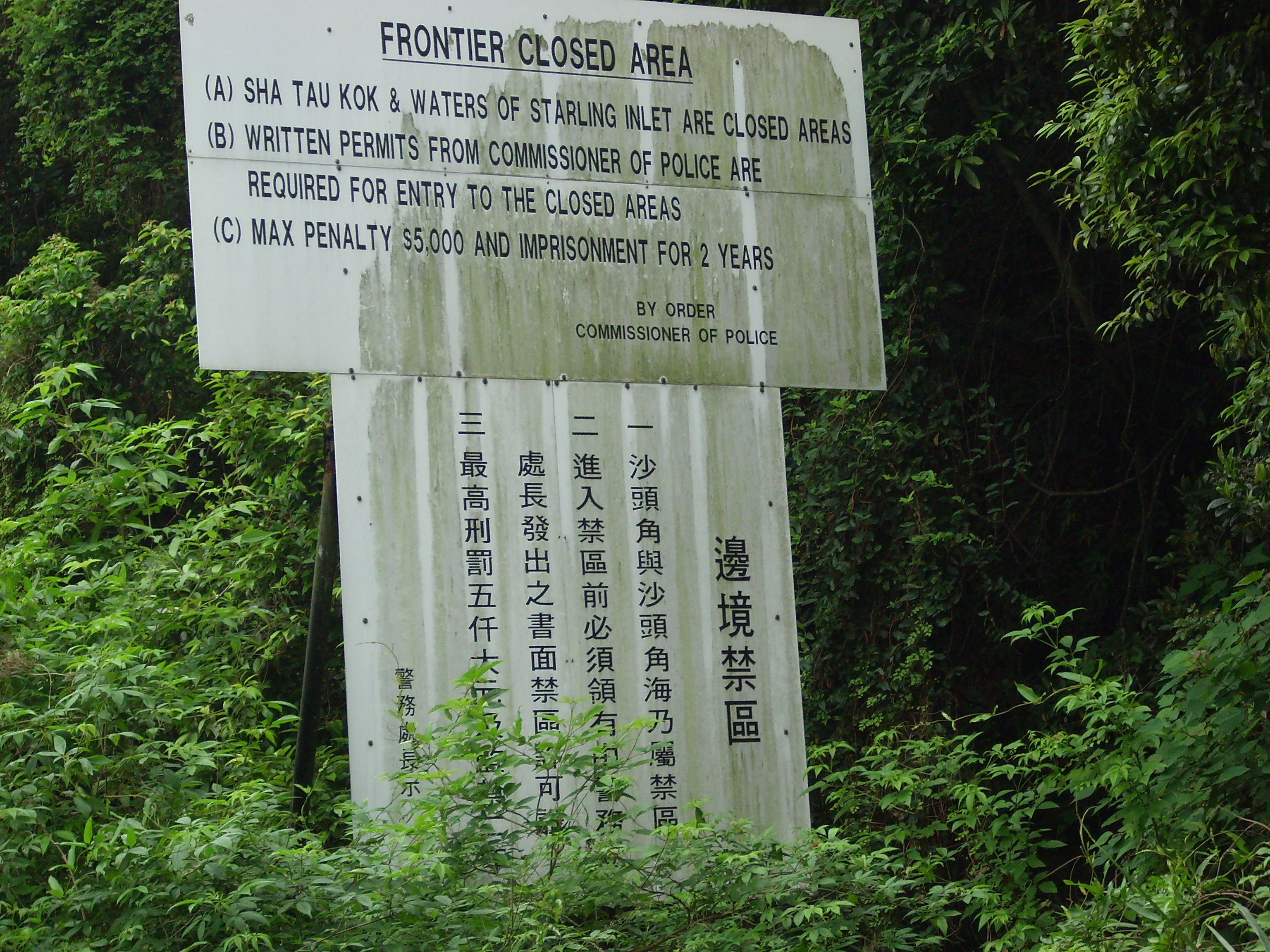 HK Frontier Closed Area